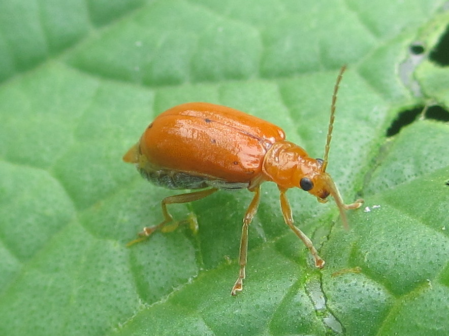 Aulacophora africana - a leaf beetle of the family Chrysomelidae (Coleoptera). Feeding on cucumber leaves in Pemba Town in Mozambique. A pest of cucurbits in Africa and other parts of the world.